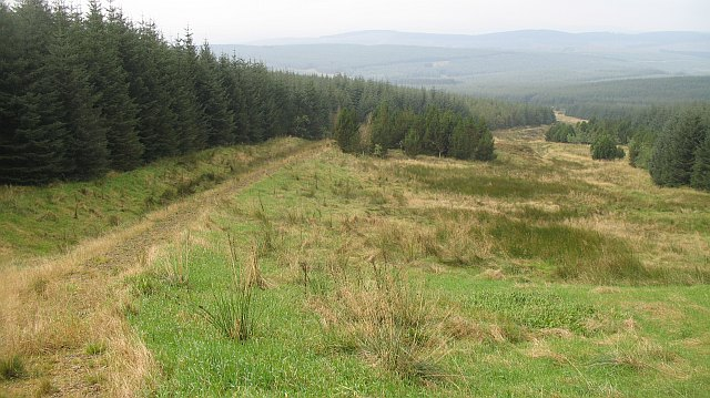 Ae - Hawick path, Langshawburn On the climb up to the Roman road, a real wheel-lifter. The new path allows an easy crossing of the watershed between Eskdale and Croik, which was all but blocked by forestry.